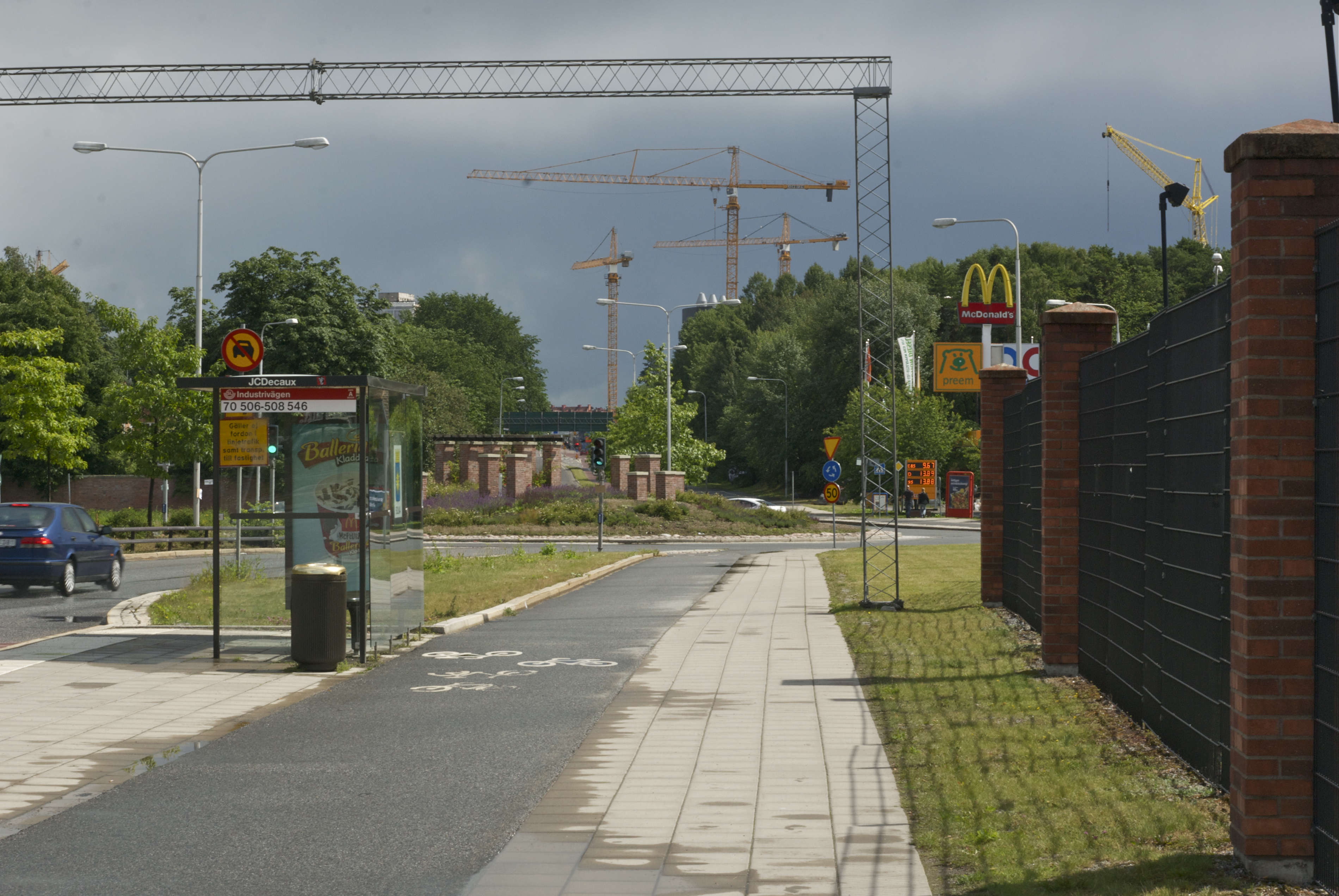 Solnavägen